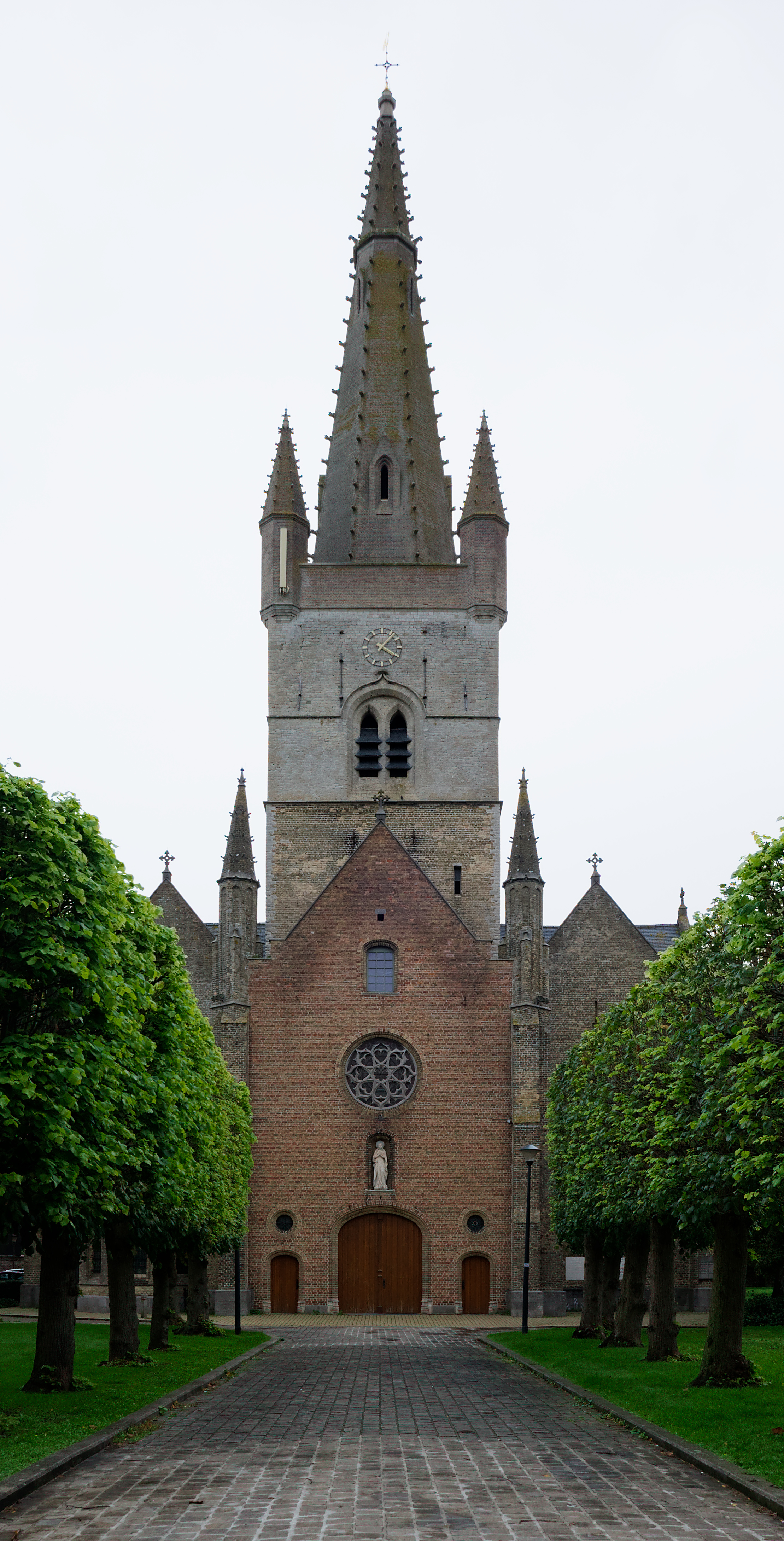 Onze-Lieve-Vrouw-Tenhemelopnemingskerk, Gistel